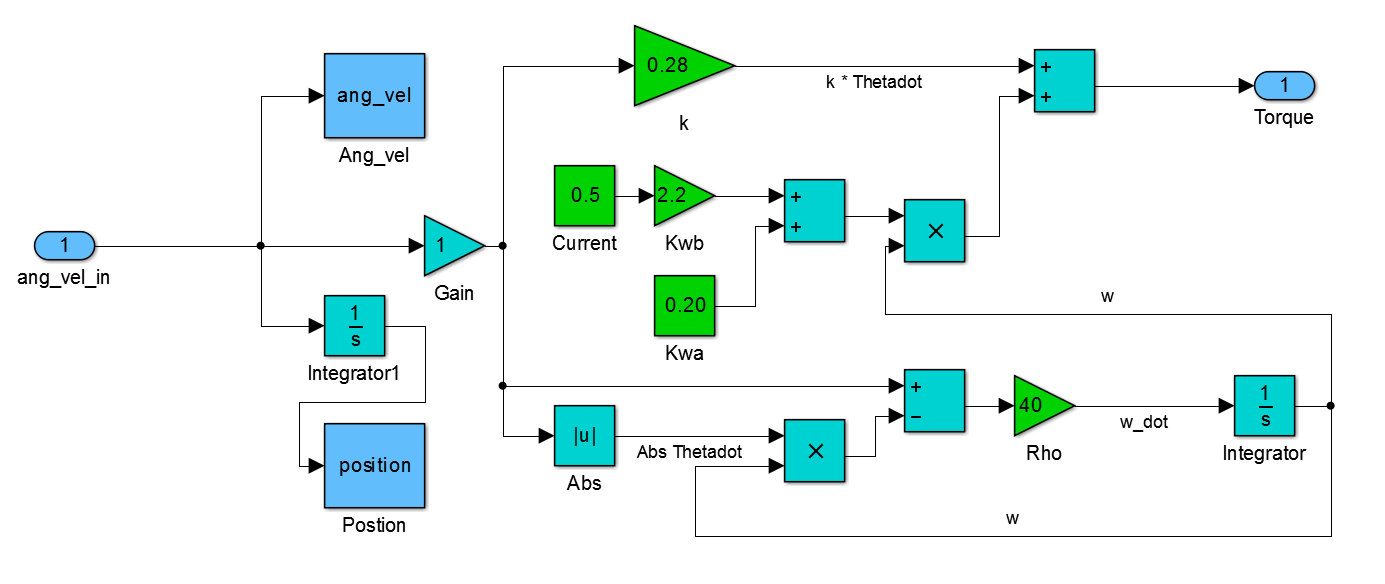 Shows the Dahl friction model created by blocks in MatLab Simulink.